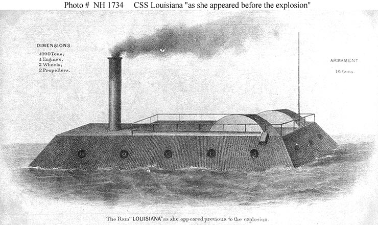 Description from the U.S. Naval Historical Center: "19th Century photograph of a lithograph by Bowen & Company, depicting the ship "as she appeared previous to the explosion" that destroyed her in the Mississippi River near Fort St. Philip, 28 April 1862."